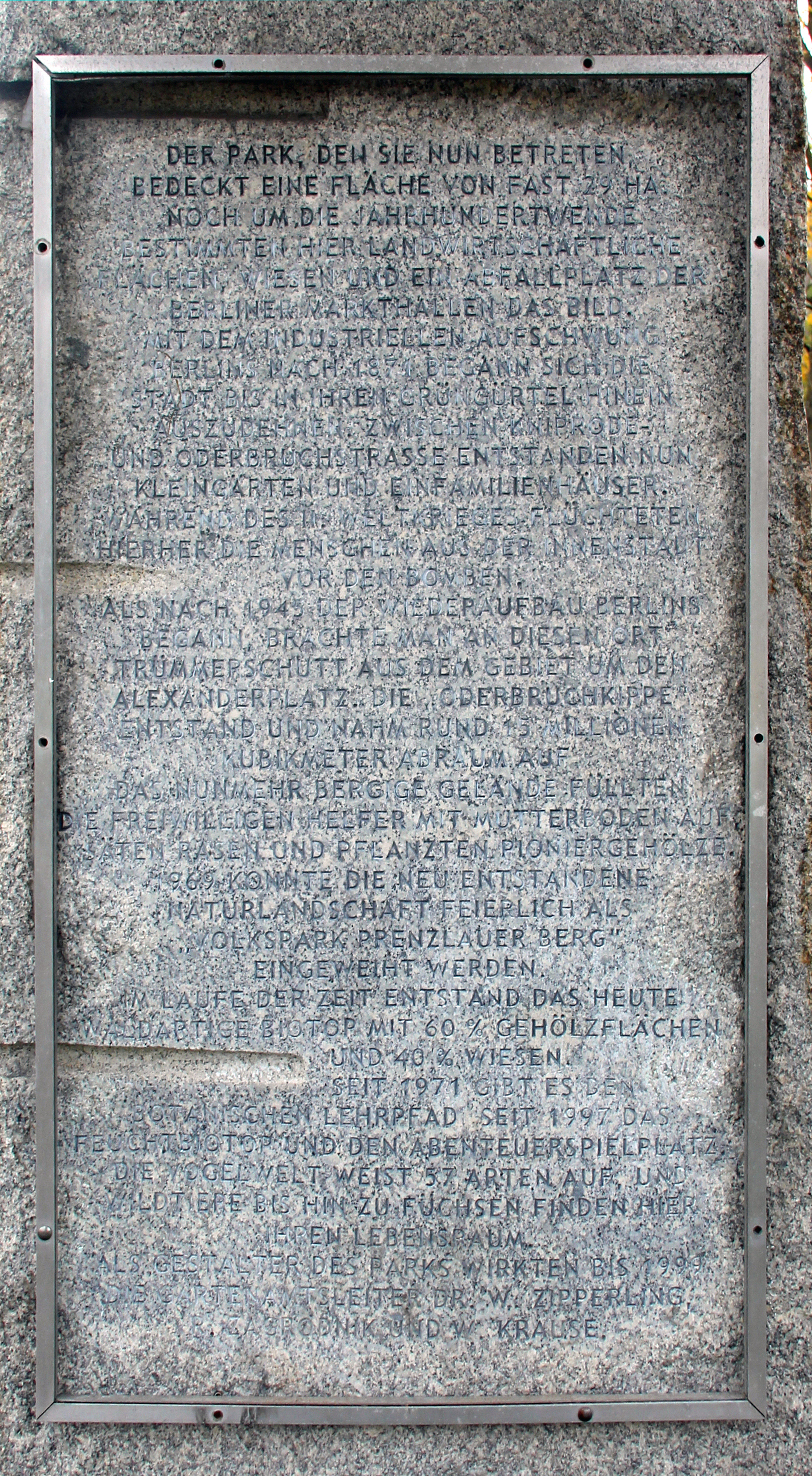 Memorial plaque, Volkspark Prenzlauer Berg, Hohenschönhauser Straße, Berlin-Prenzlauer Berg, Deutschland